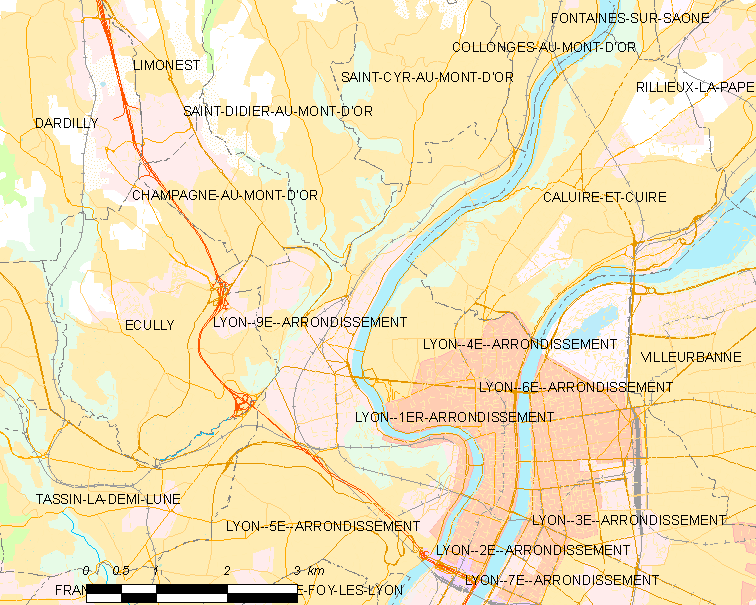 Map of French municipality